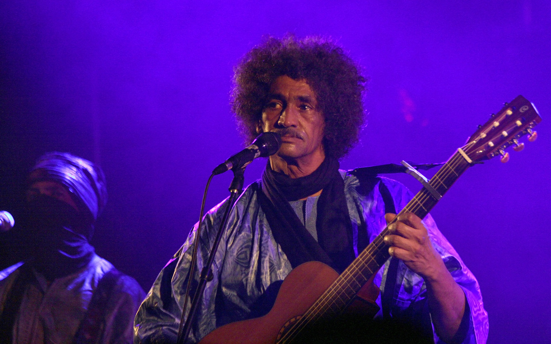 Tinariwen - concert at the cultural center WUK in Vienna.